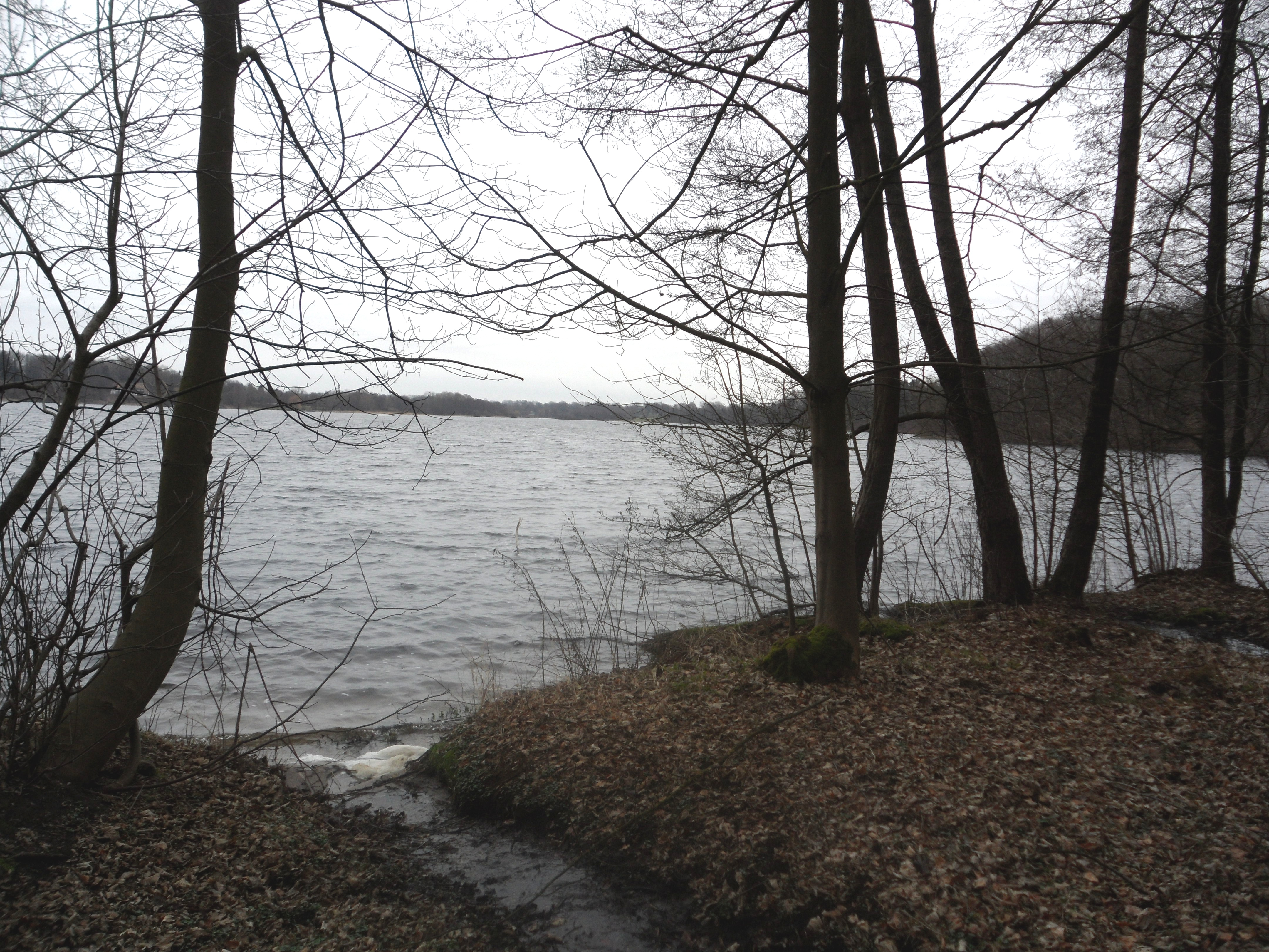 The Mözener See from northwest